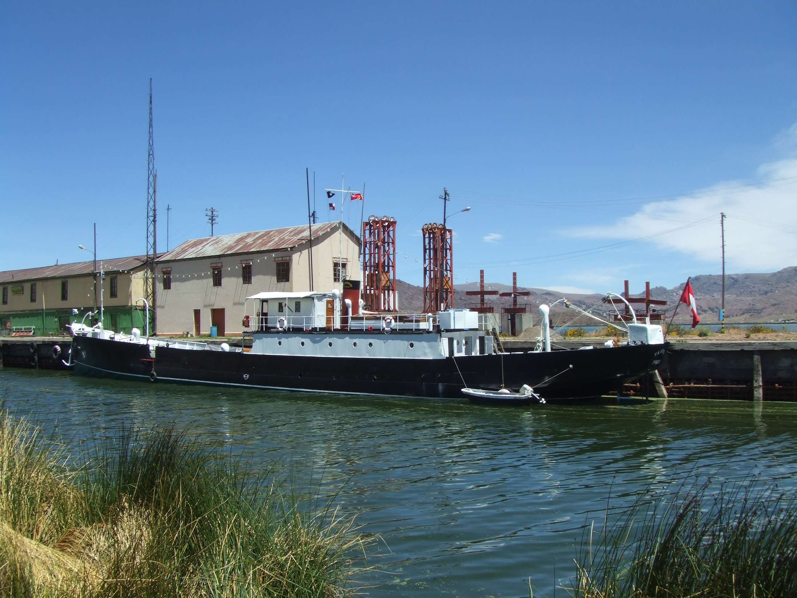 The preserved 140 ton M.N. Yavari, built by Thames Iron Works, London in 1861-62 under contract from the James Watt Foundary, Birmingham as a gunboat for the Peruvian Navy with 2X24 pdrs for use on Lake Titicaca. Dismantled and shipped to Arica (then part of Peru), the 2,766 pieces were then sent by train to Tacna and then on mules to Puno on Lake Titicaca and re-erected, finally being completed on Christmas Day, 1870. Lengthened in 1874. Fought in the War of the Pacific 1879-83 between Peru, Bolivia and Chile. Then converted to civilian use by the British Peruvian Corporation; in 1914 it's Watt steam engine (powered by dried lama dung!) was replaced by a Swedish Bollinder semi-diesel (recently renovated by Volvo).In 1987 it was bought by the Yavari Association for restoration. An amazing survivor. At Puno11/07.